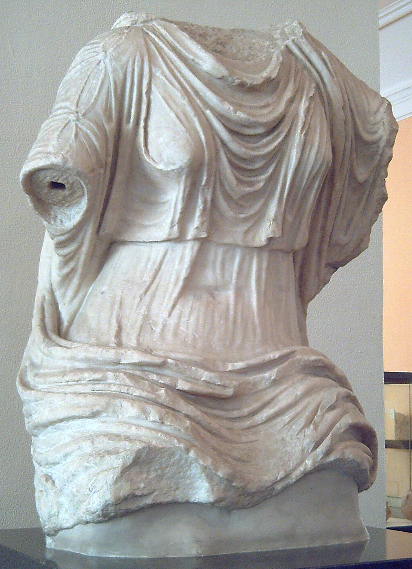 A female torso. Part of a former colossal-type Roman sitting statue sculpted in a provincial workshop.